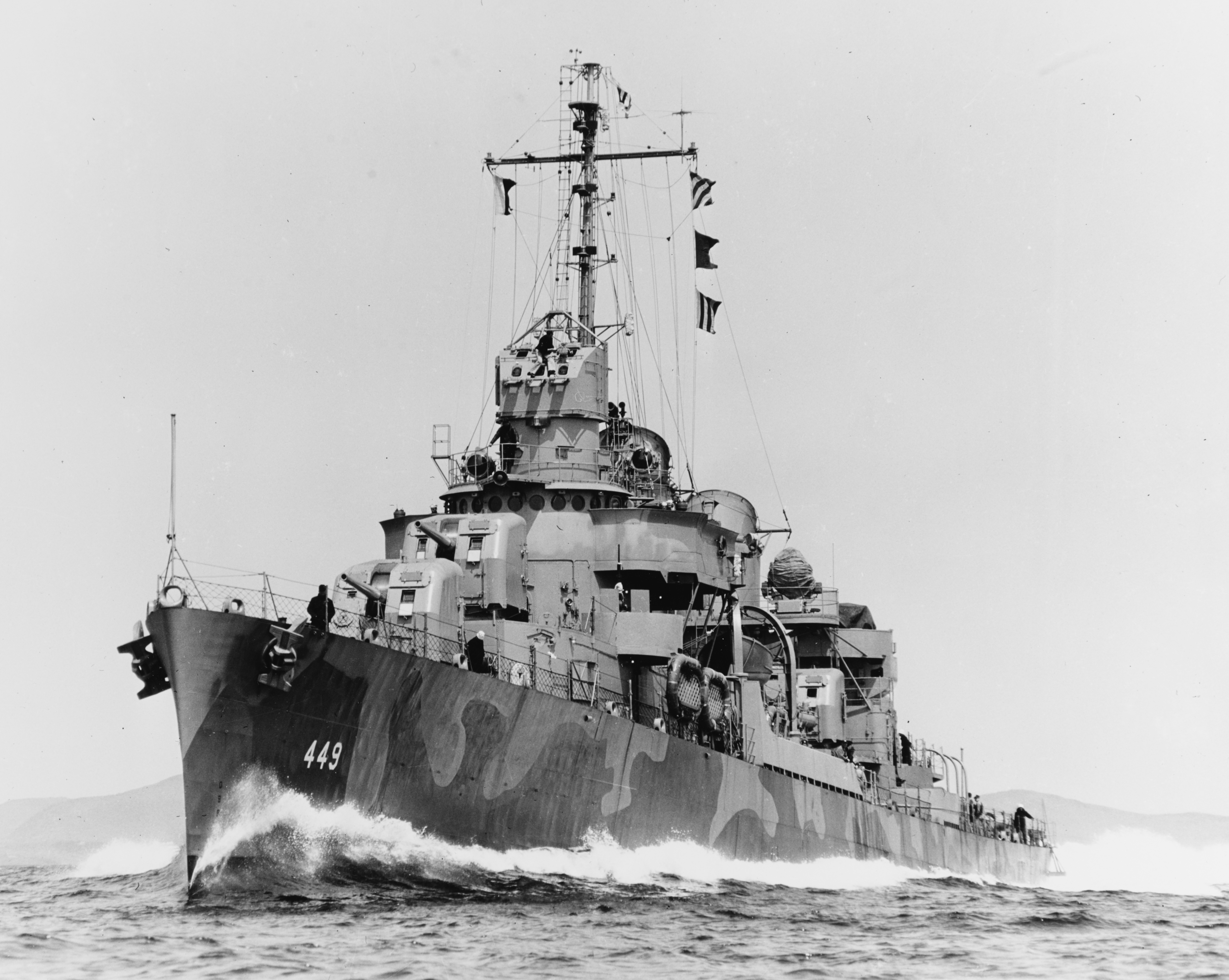 The U.S. Navy destroyer USS Nicholas (DD-449) flying Bath Iron Works' house flag on acceptance trials off Rockland, Maine (USA), 28 May 1942, a week before she was commissioned.